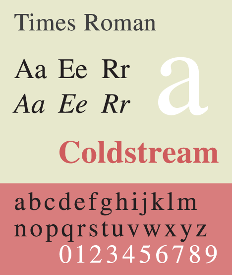 edit of